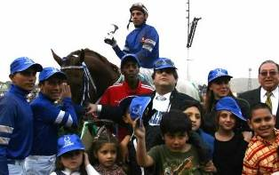 El potrillo Cristiano en el herraje de ganadores luego de haber ganado la polla de potrillos edición 2009